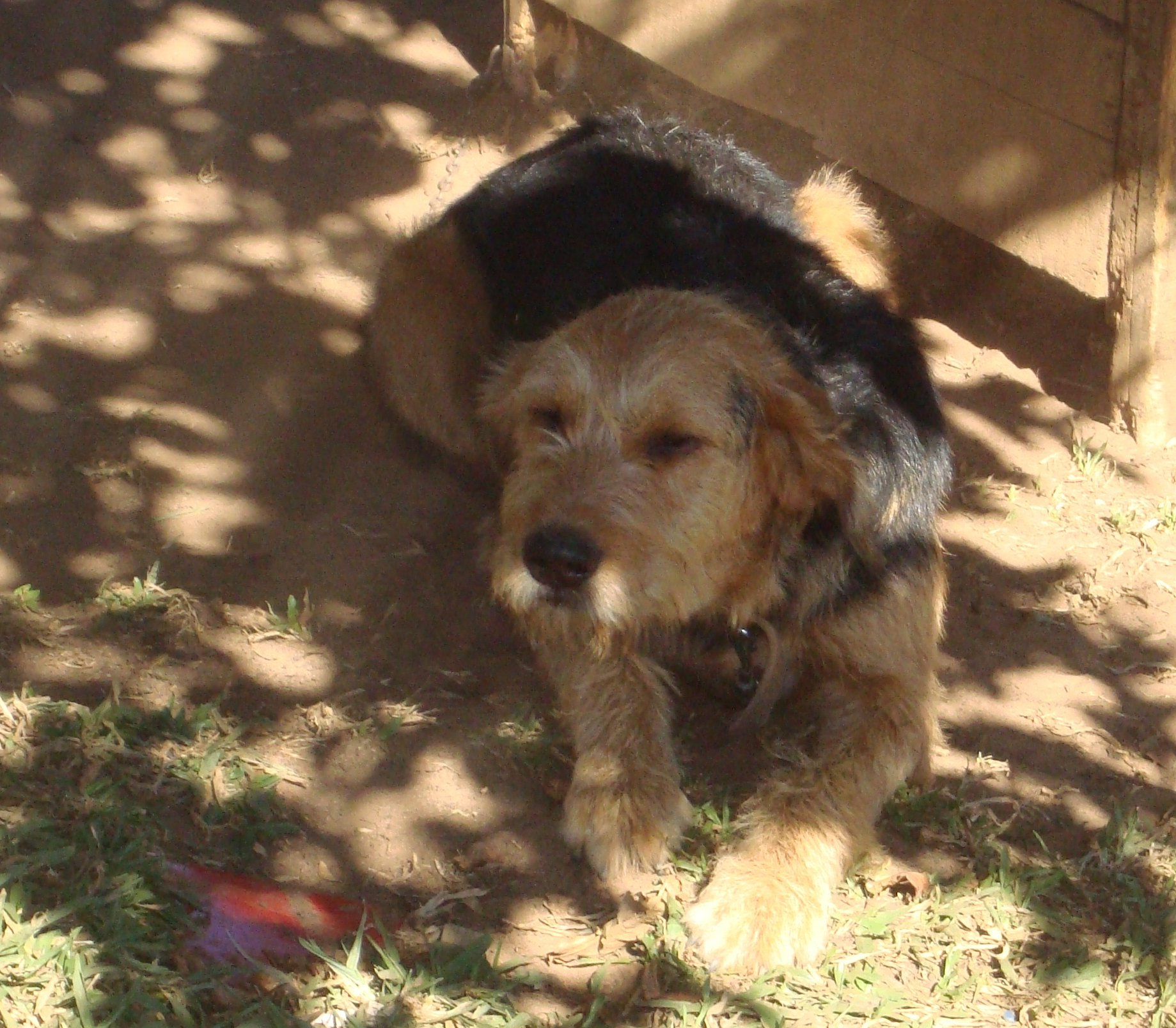 Bitch puppy named Mira, breed bearded hunter.